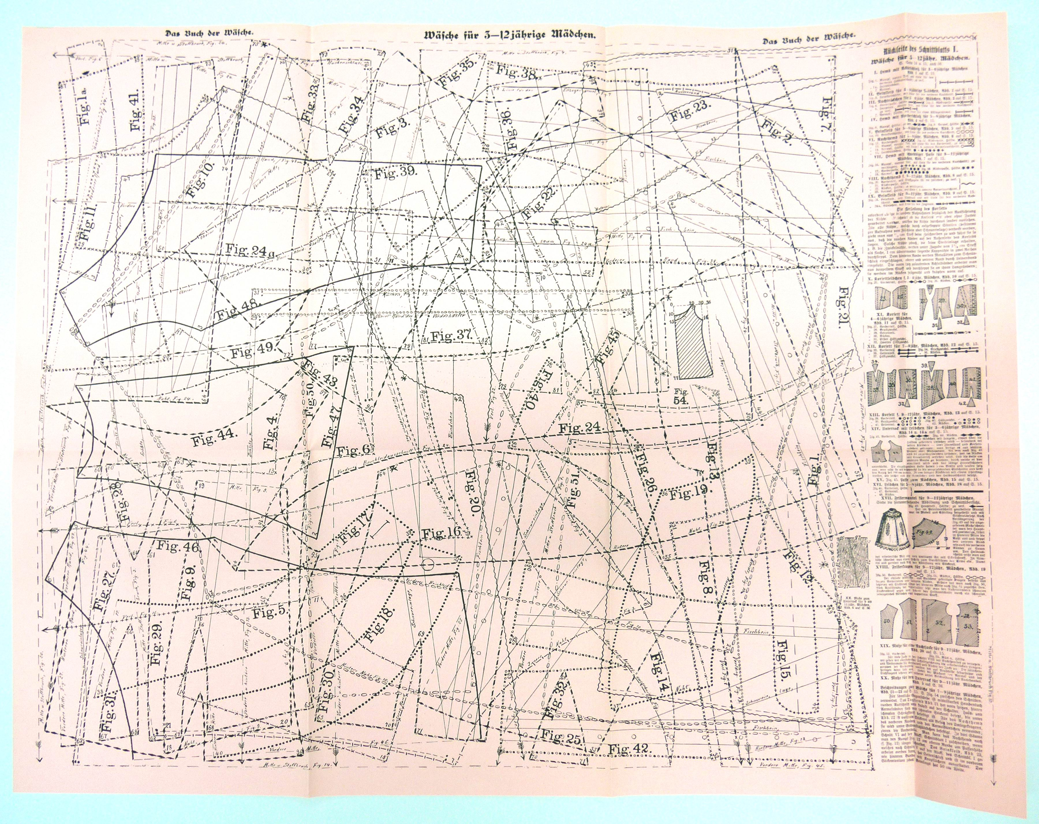 Sewing pattern, Leipzig, ca. 1900